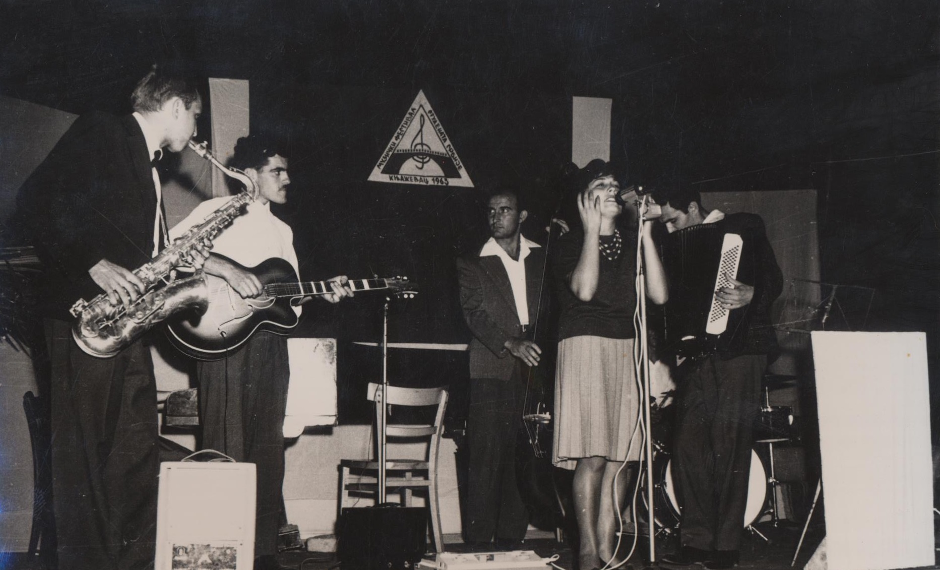 Festival of Youth Creativity in Knjazevac